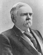 Picture of George Graham Vest (1830-1904). Former United States Senator (1879-1903)